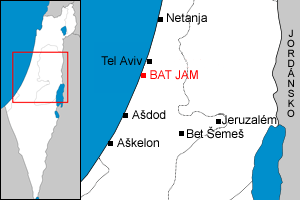 Localization of Bat Yam within Israel.